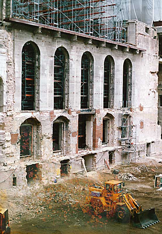 Reichstag - rebuilding